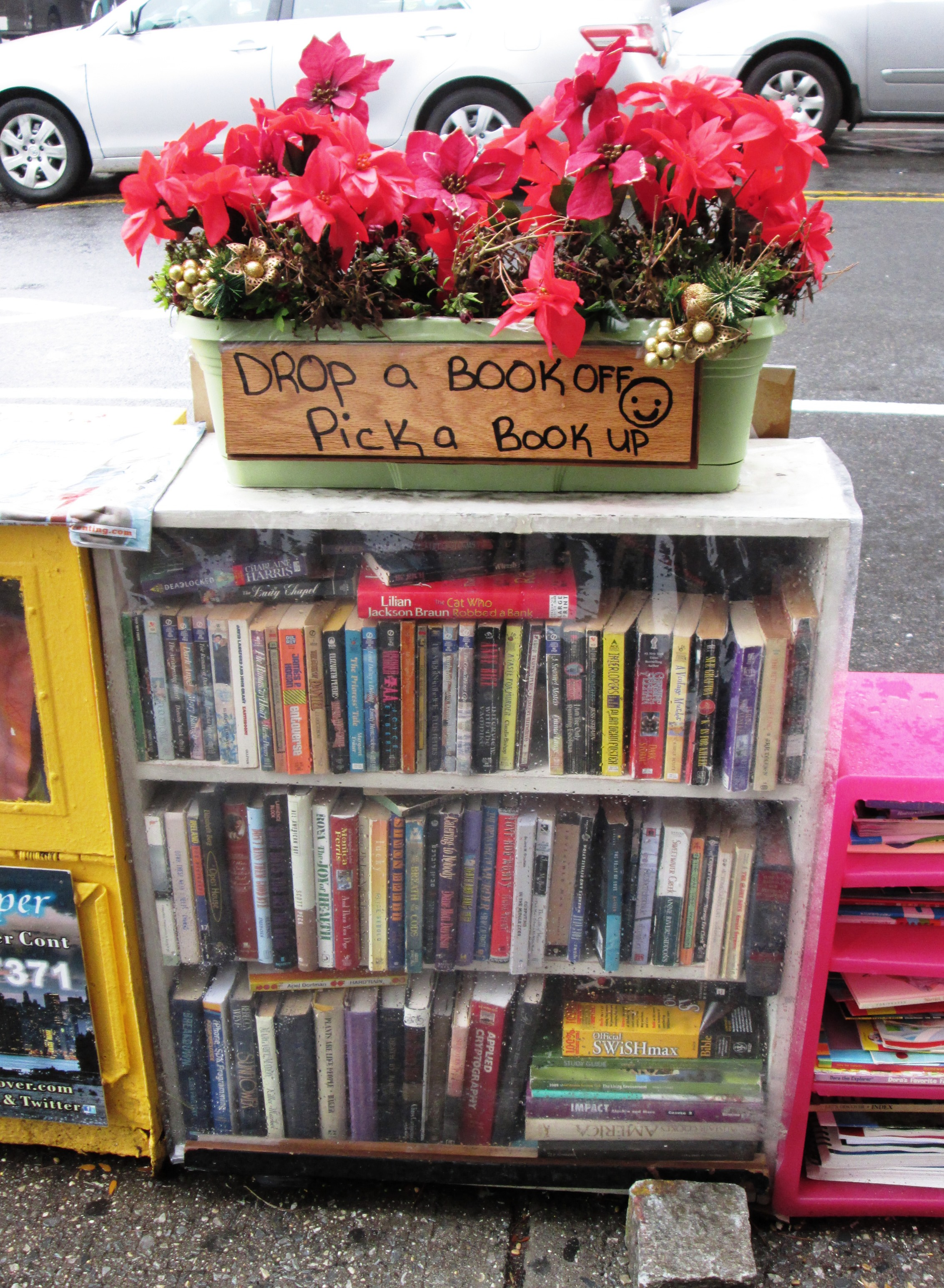 A street book exchange outside the Starbucks on the corner of Fort Washington Avenue and West 181st Street in the Hudson Heights neighborhood of Manhattan, New York City.